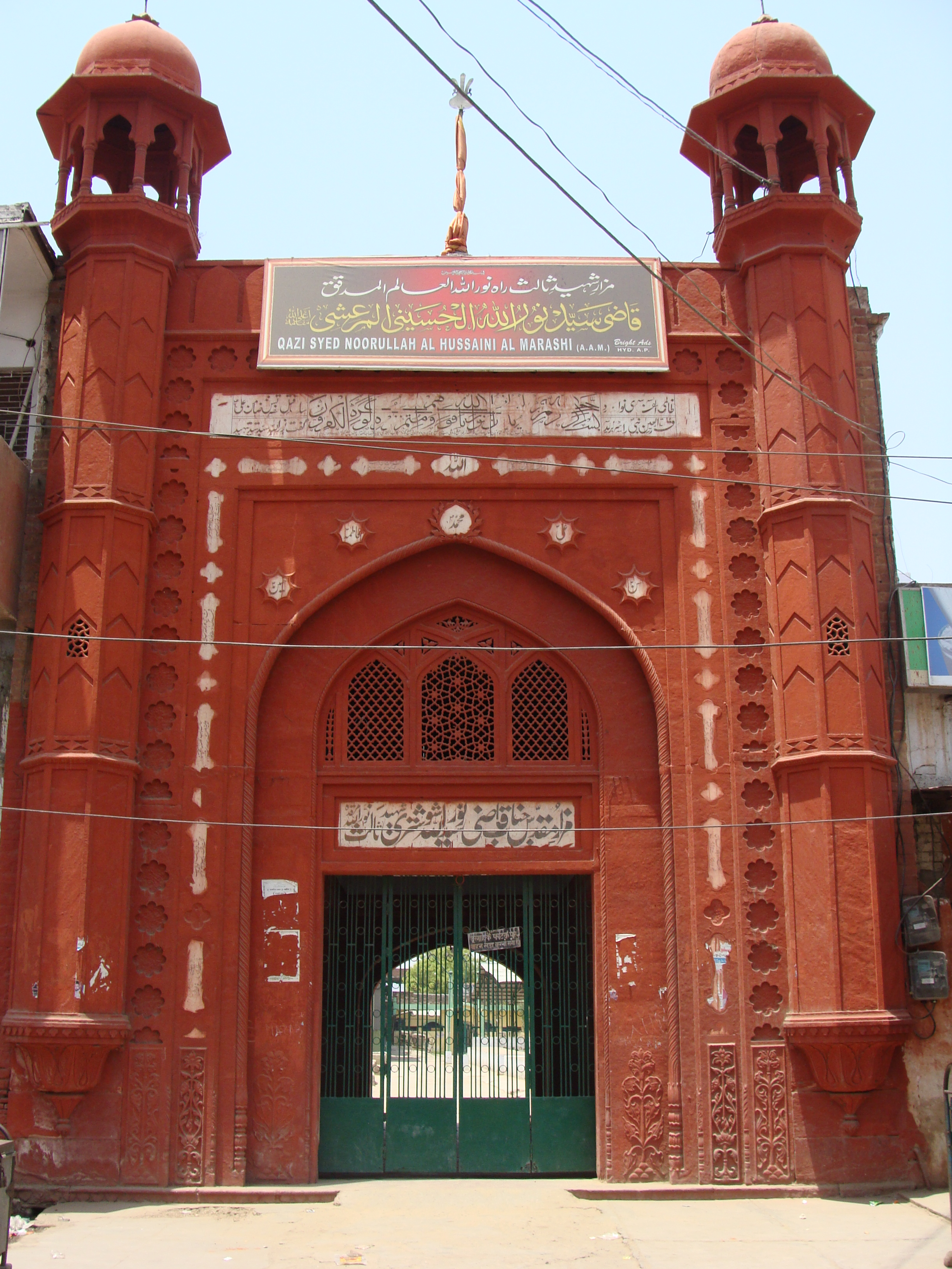 Entrance to Dargah of Shaheed-e-Salis Qazi Nurullah Shustari at Dayalbagh, Agra. Picture taken by Faiz Haider, using Sony Cybershot camera. Photo was taken on: Thursday, May 07, 2009, 11:24:00 AM